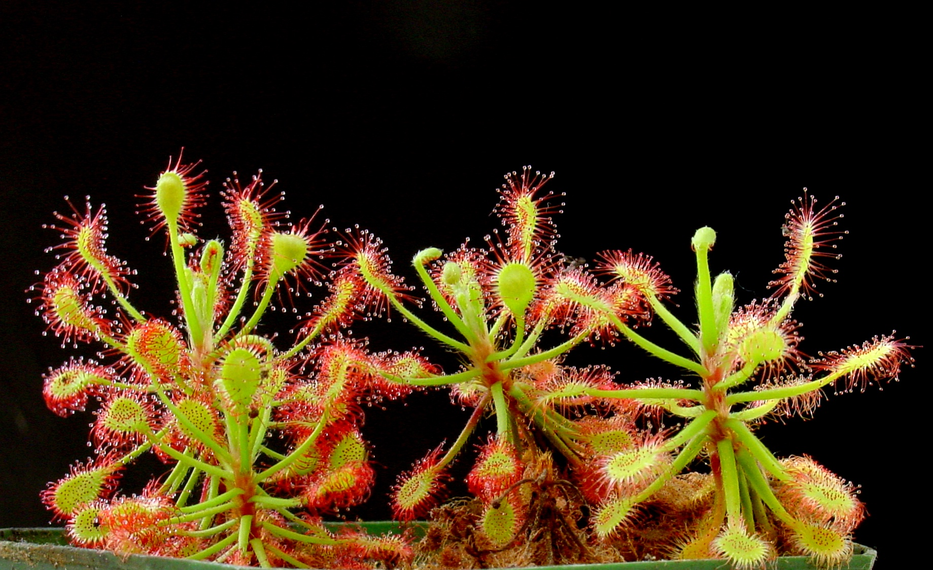 Description: Drosera madagascariensis in culture Photo taken by: Noah Elhardt